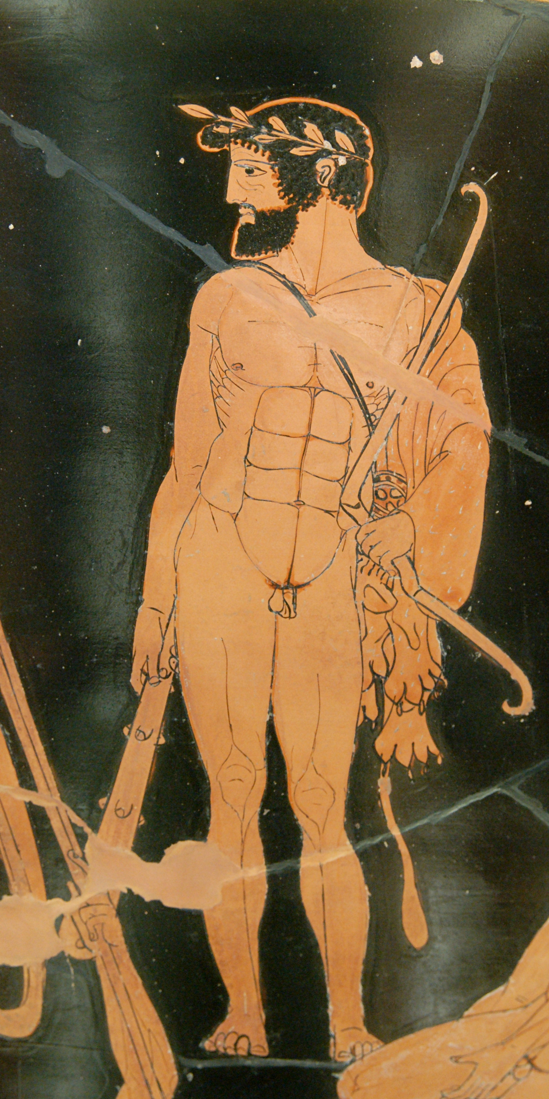 Herakles crowned with a laurel wreath, wearing the lion-skin and holding a club and a bow, detail from a scene representing the gathering of the Argonauts (?). Side A from an Attic red-figure calyx-krater, ca. 460–450 BC. From Orvieto (Volsinii).